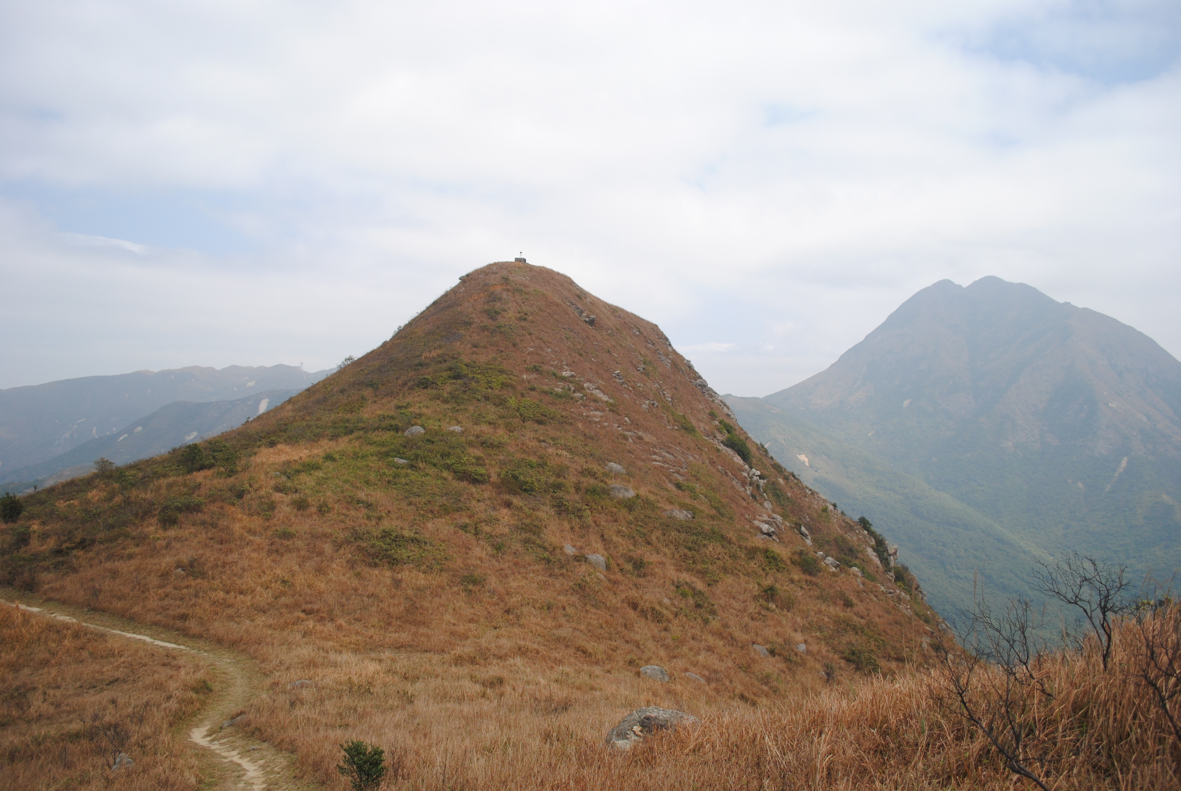 Kwun Yam Shan